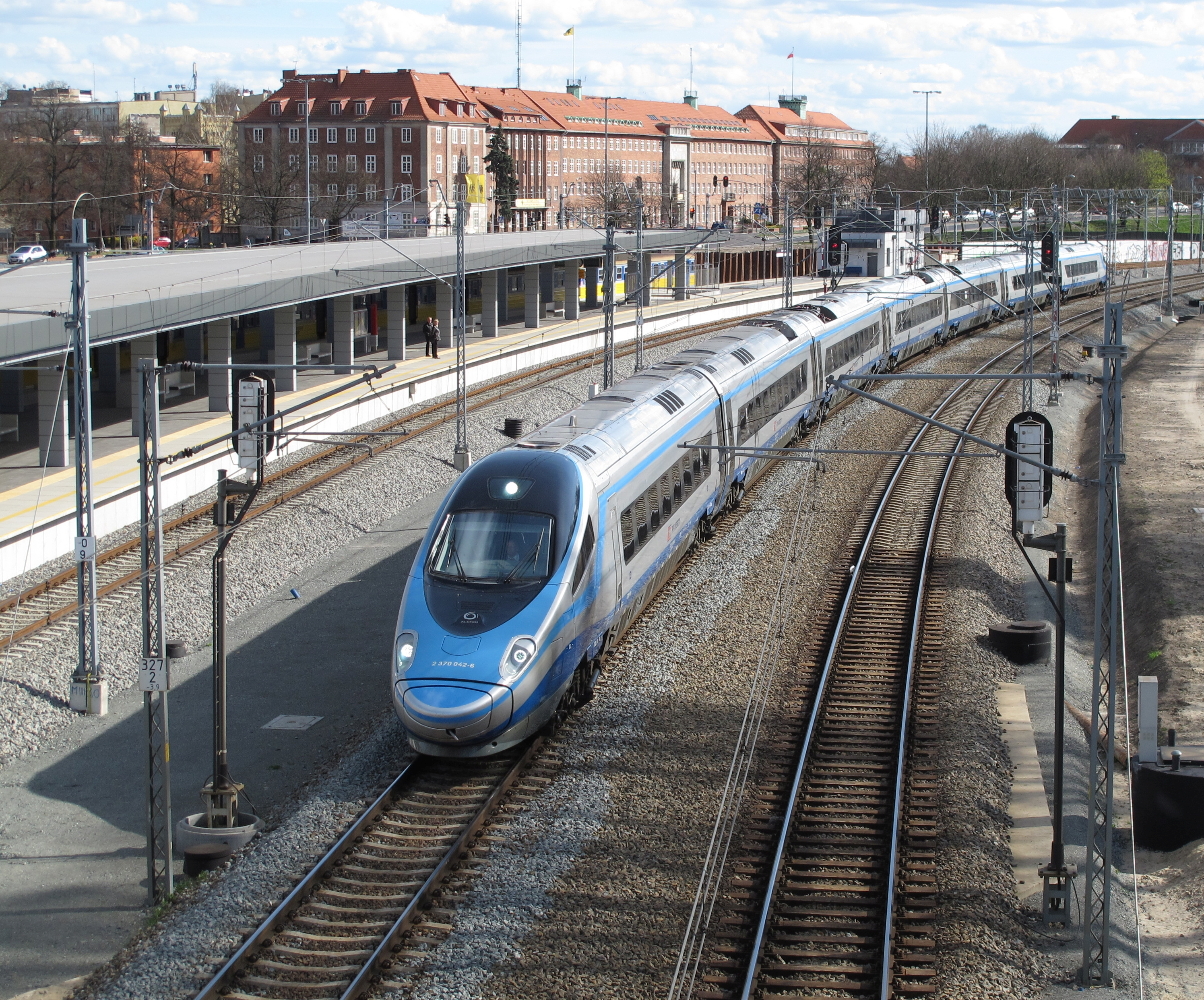 Gdańsk - ED250-006 train passes by Gdańsk Śródmieście rapid train stop